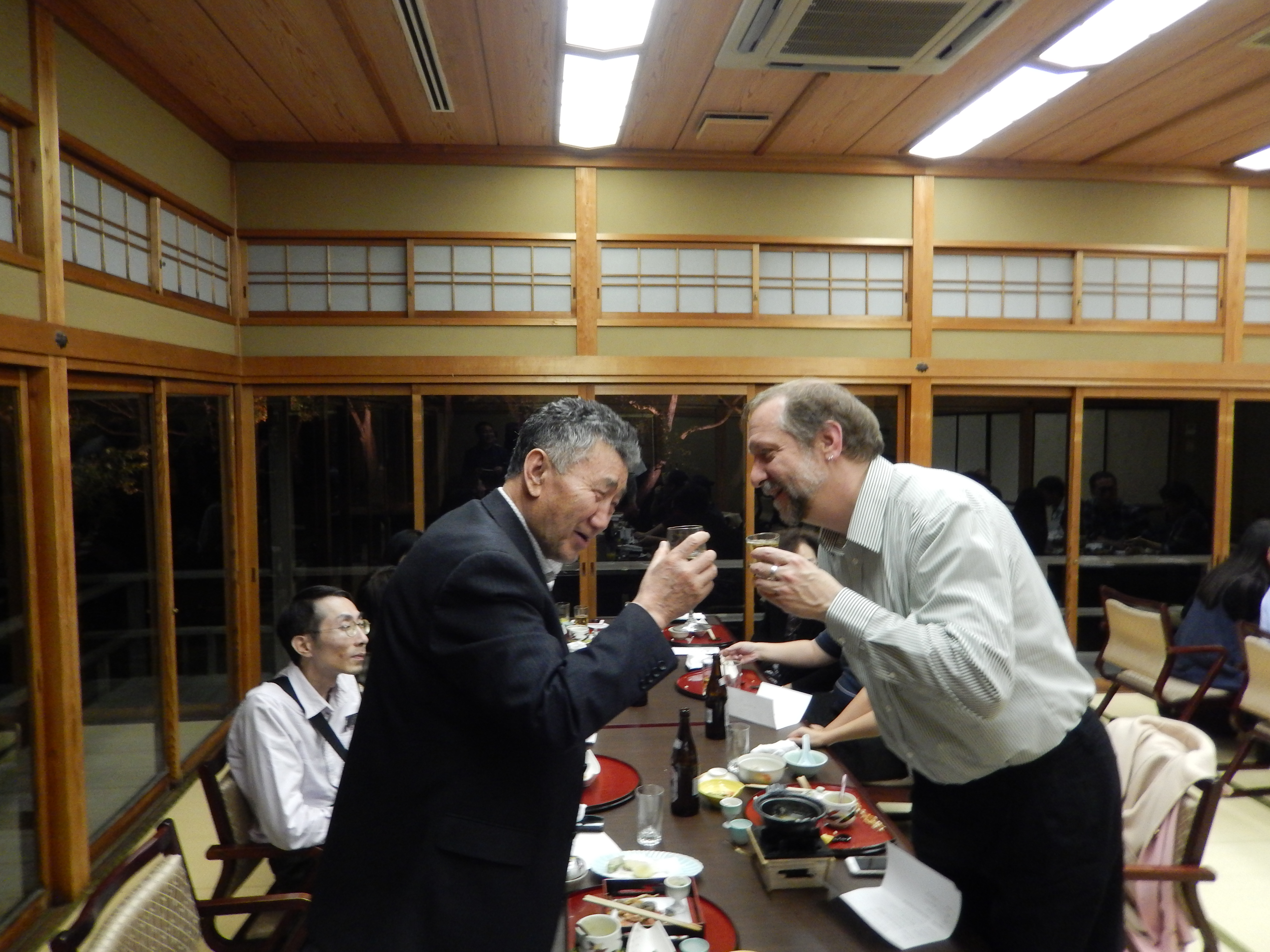 Prof. Wushour Silamu at a meeting of ISO/IEC JTC1 SC2 WG2 in Matsue, Japan, October 2015. The photo shows Wushour Silamu and Michael Everson toasting each other.